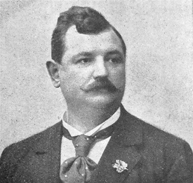 The Bohemian industrialist and ham producer Antonín Chmel (d. 1899).